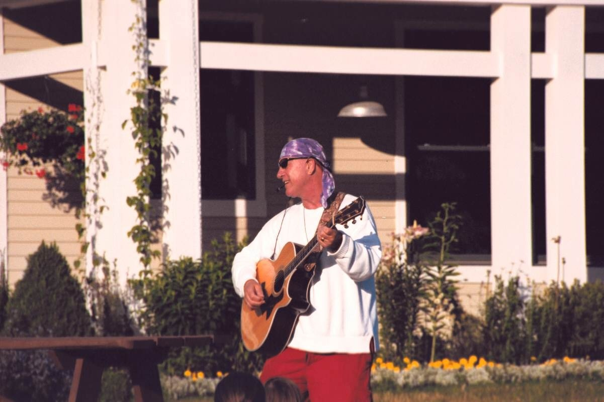 Killington, Vermont. A photo of a man with a guitar facing left; a building is in the background.